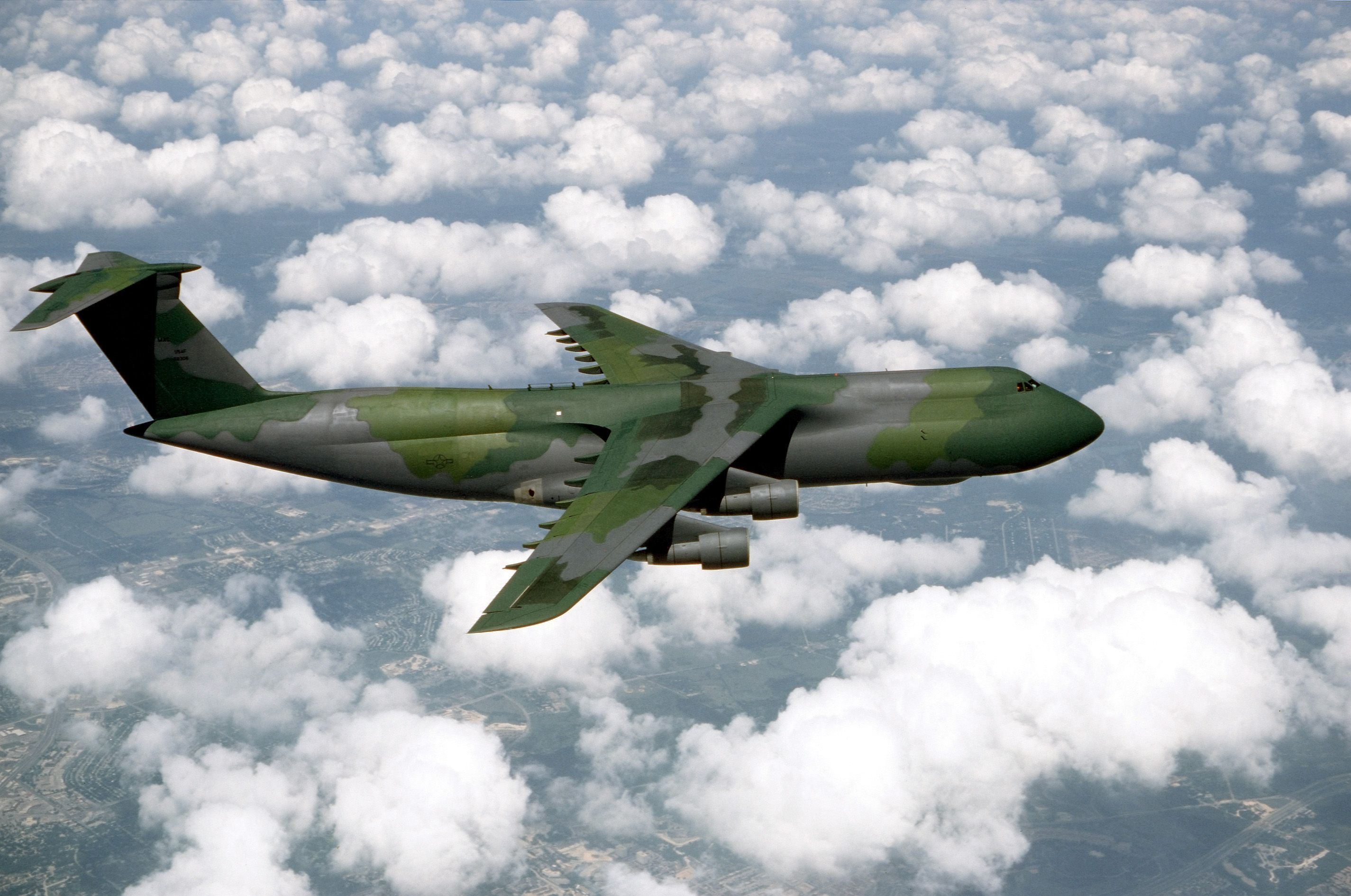 An air-to-air right side view of a 22nd Military Airlift Squadron C-5A Galaxy aircraft returning to Travis Air Force Base, California, after being painted in the European camouflage pattern at the San Antonio Air Logistics Center, Kelly Air Force Base, Texas.